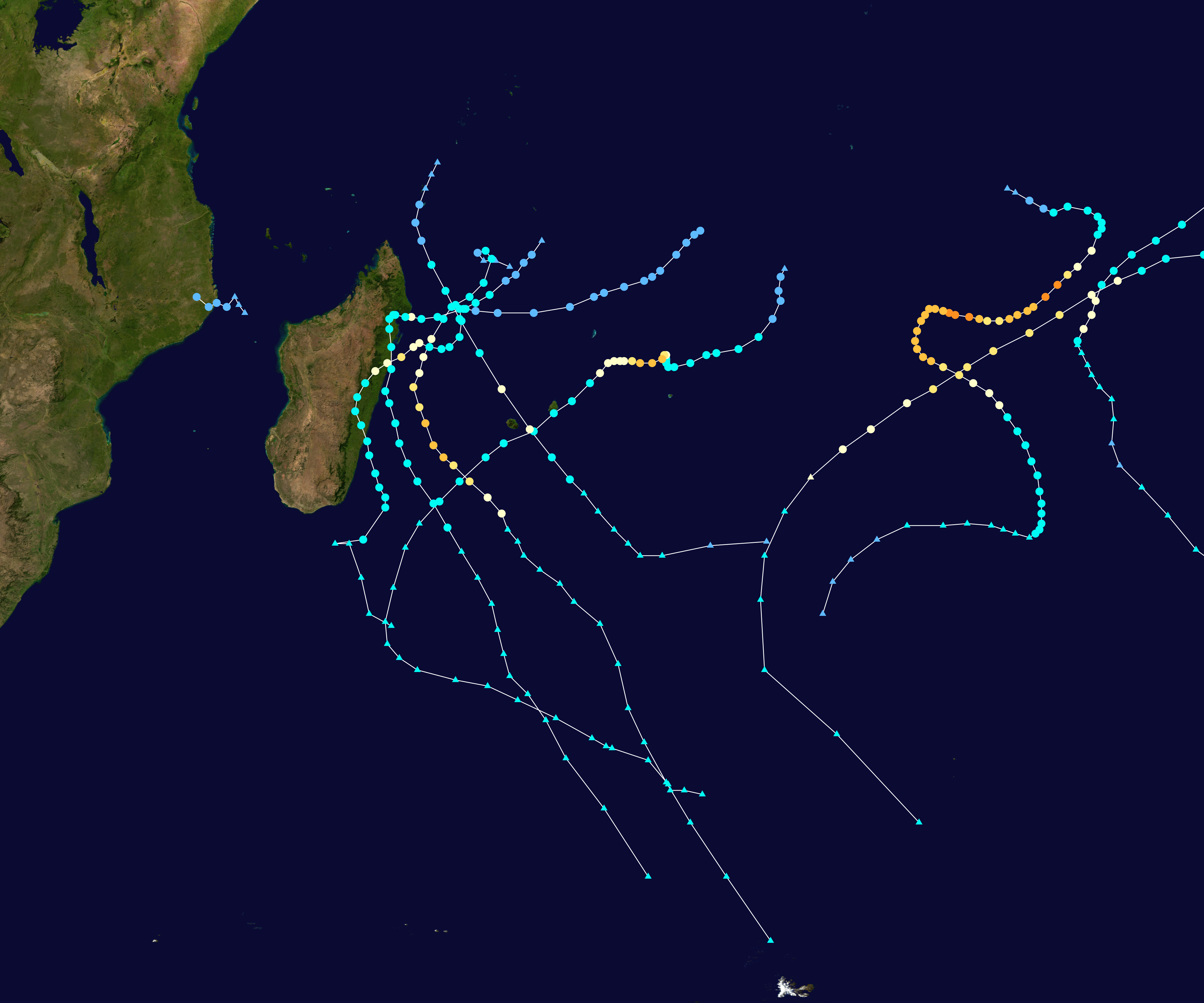 This map shows the tracks of all tropical cyclones in the 2017-18 South-West Indian Ocean cyclone season. The points show the location of each storm at 6-hour intervals. The colour represents the storm's maximum sustained wind speeds as classified in the Saffir-Simpson Hurricane Scale (see below), and the shape of the data points represent the type of the storm. Saffir–Simpson scale Tropical depression≤38 mph≤62 km/h Category 3111–129 mph178–208 km/h Tropical storm39–73 mph63–118 km/h Category 4130–156 mph209–251 km/h Category 174–95 mph119–153 km/h Category 5≥157 mph≥252 km/h Category 296–110 mph154–177 km/h Unknown Storm type Tropical cyclone Subtropical cyclone Extratropical cyclone / Remnant low / Tropical disturbance / Monsoon depression